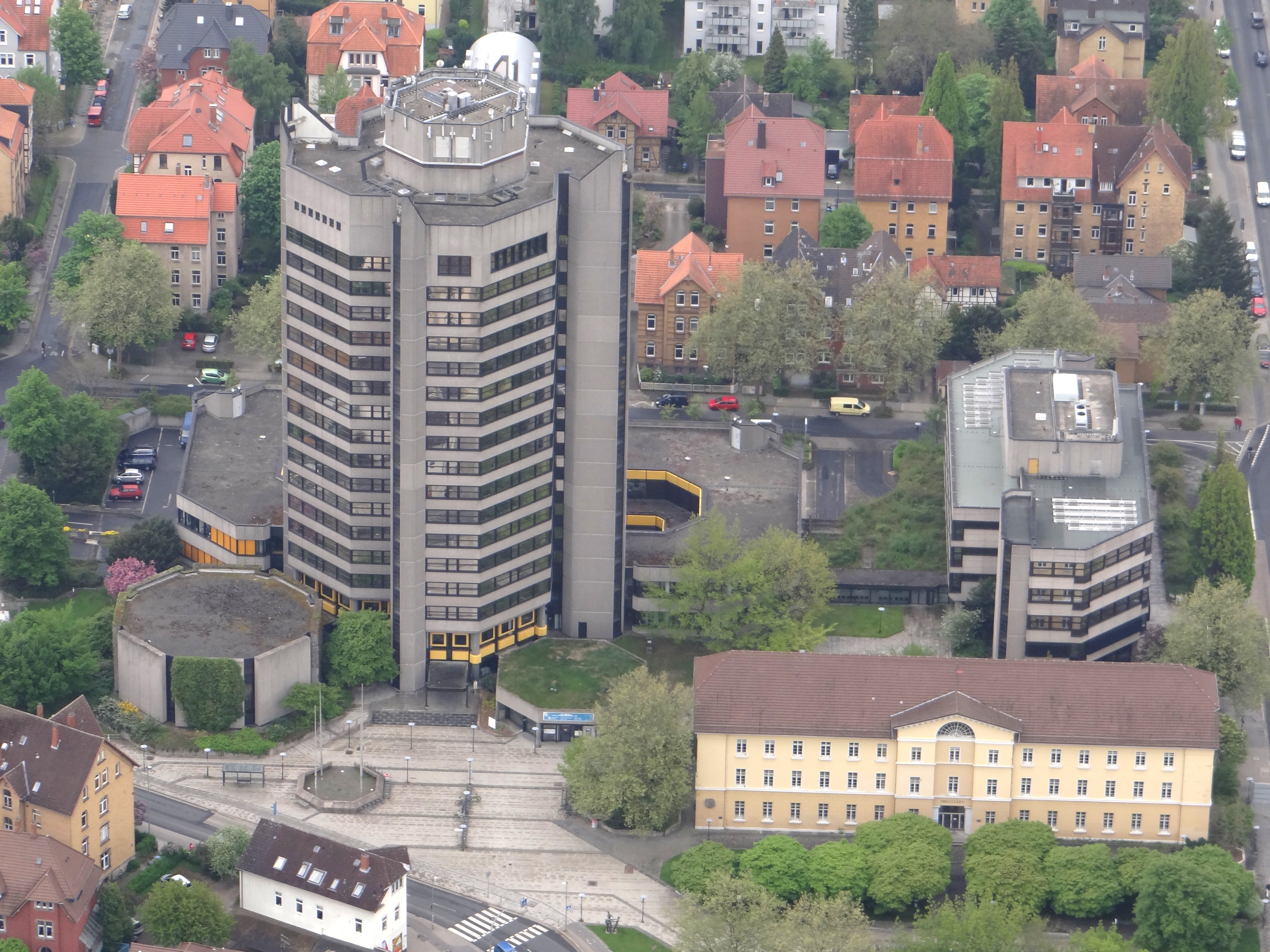 own work